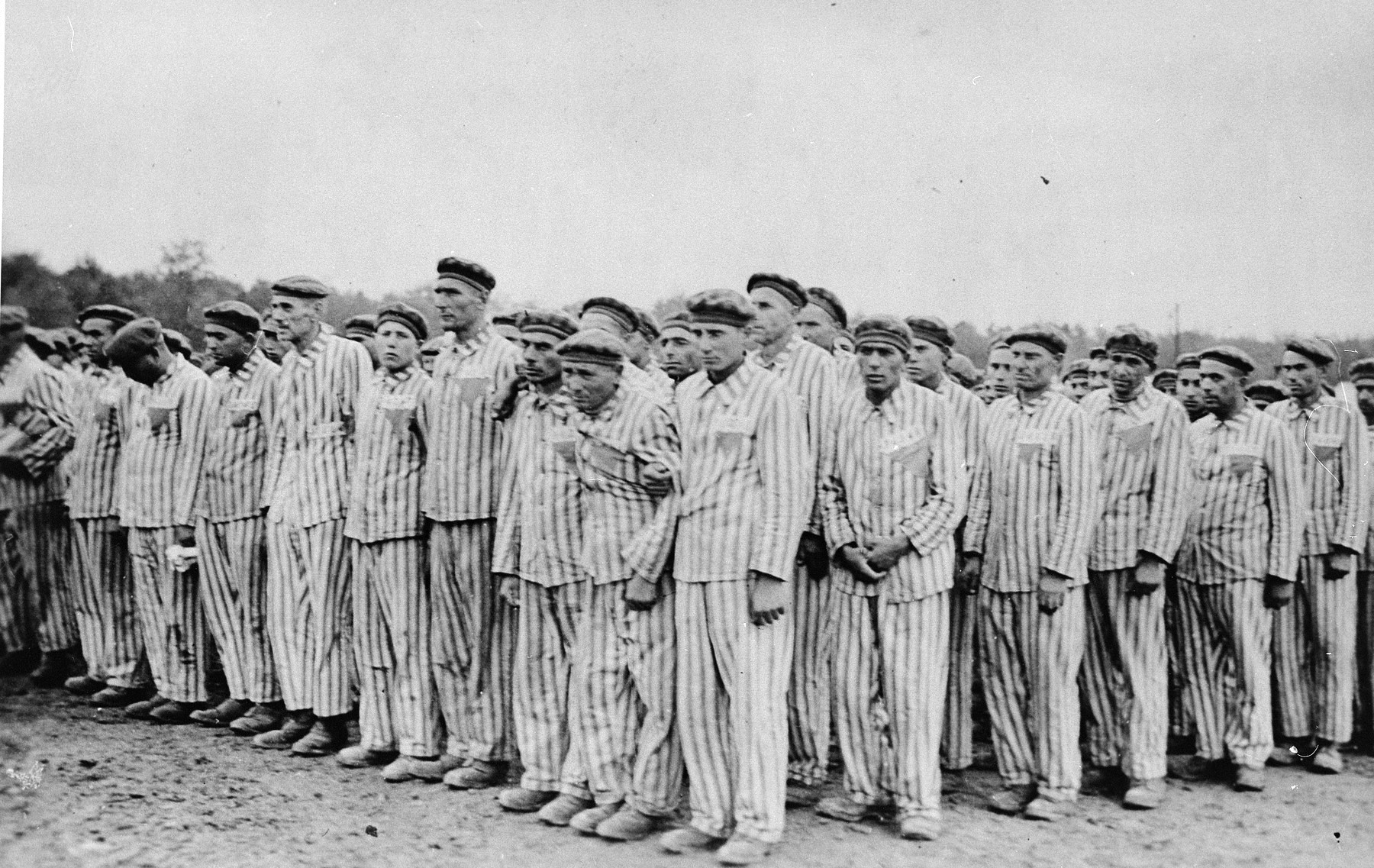 Prisoners standing during a roll call. Each wears a striped hat and uniform bearing colored, triangular badges and identification numbers.